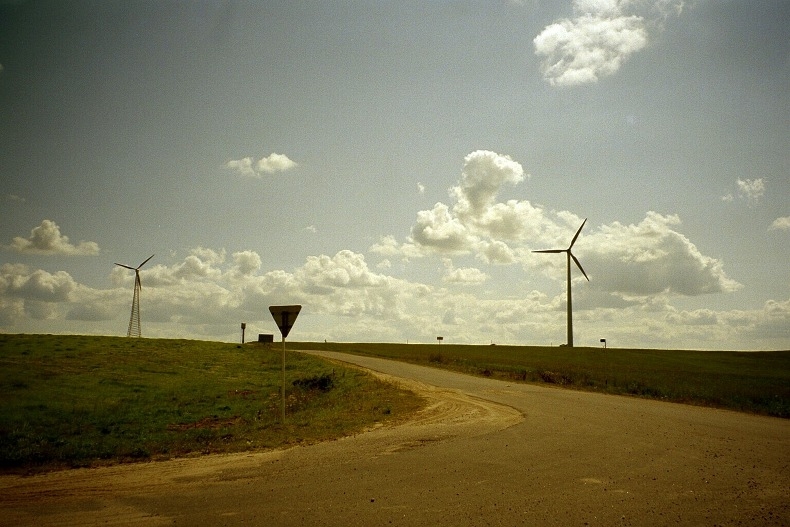 The two wind engines build from Heim-statt Tschernobyl together with the Belarussian organisation Oeko Dom near Drushnaja at the Lake of Naratsch.